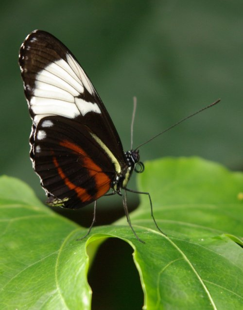 Cydno Longwing, aka Blue-and-White Longwing (Heliconius cydno), 12th Live Butterfly Exhibit, Brookside Gardens, Wheaton MD